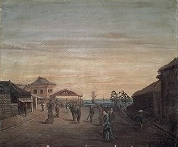 Scene of Yokohama